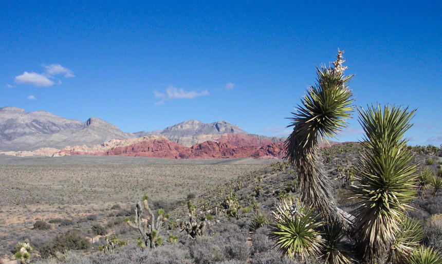 Joshua Tree (Yucca brevifolia) — with sandstone Red Rock Canyon formations in the background. Within the Red Rock Canyon National Conservation Area, Spring Mountains, southern Nevada. Taken by Xiao Li